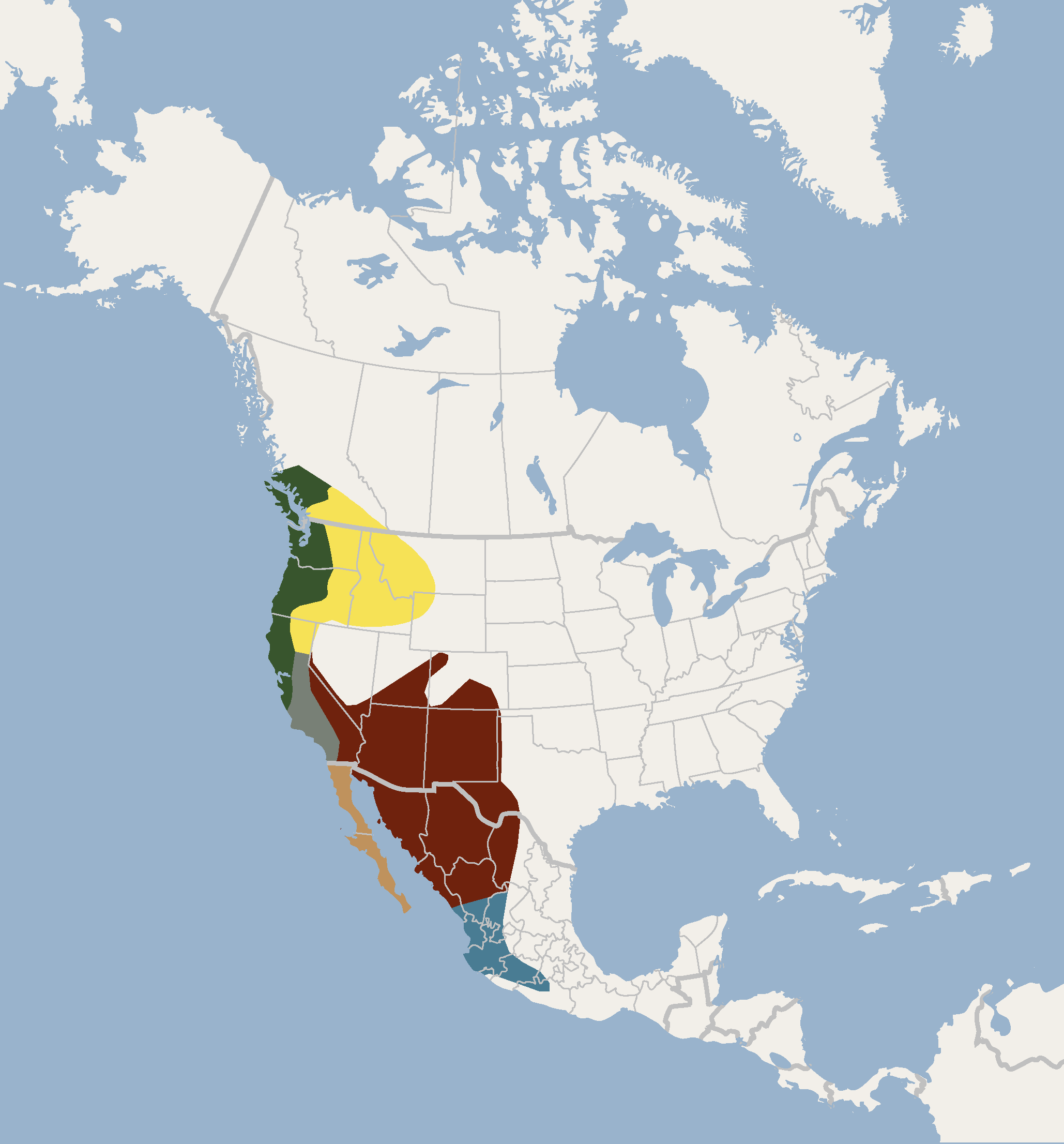 Geographical distribution of Myotis yumanensis according to Kays & Wilson, 2009